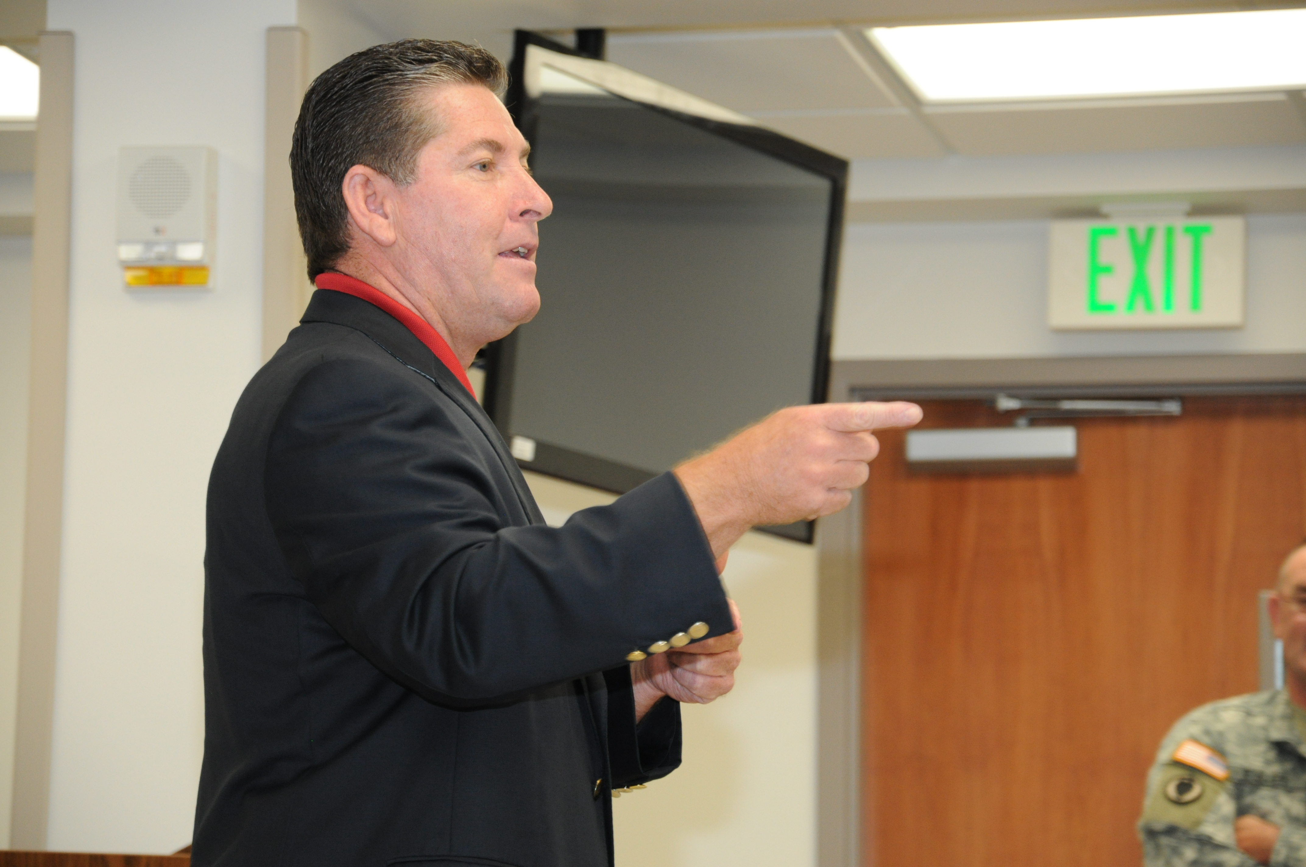 Ray Tanner, head coach of the University of South Carolina baseball team, speaks to Soldiers at the Warrior Transition Unit.